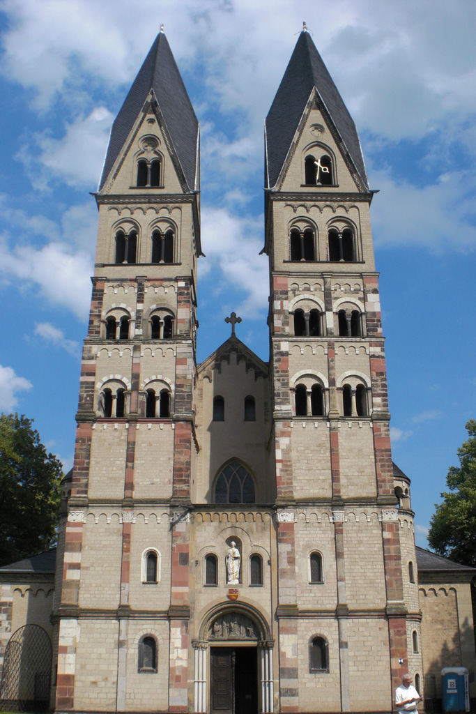 Roman-catholich church Saint Castor in Koblenz, Germany. Western facade.